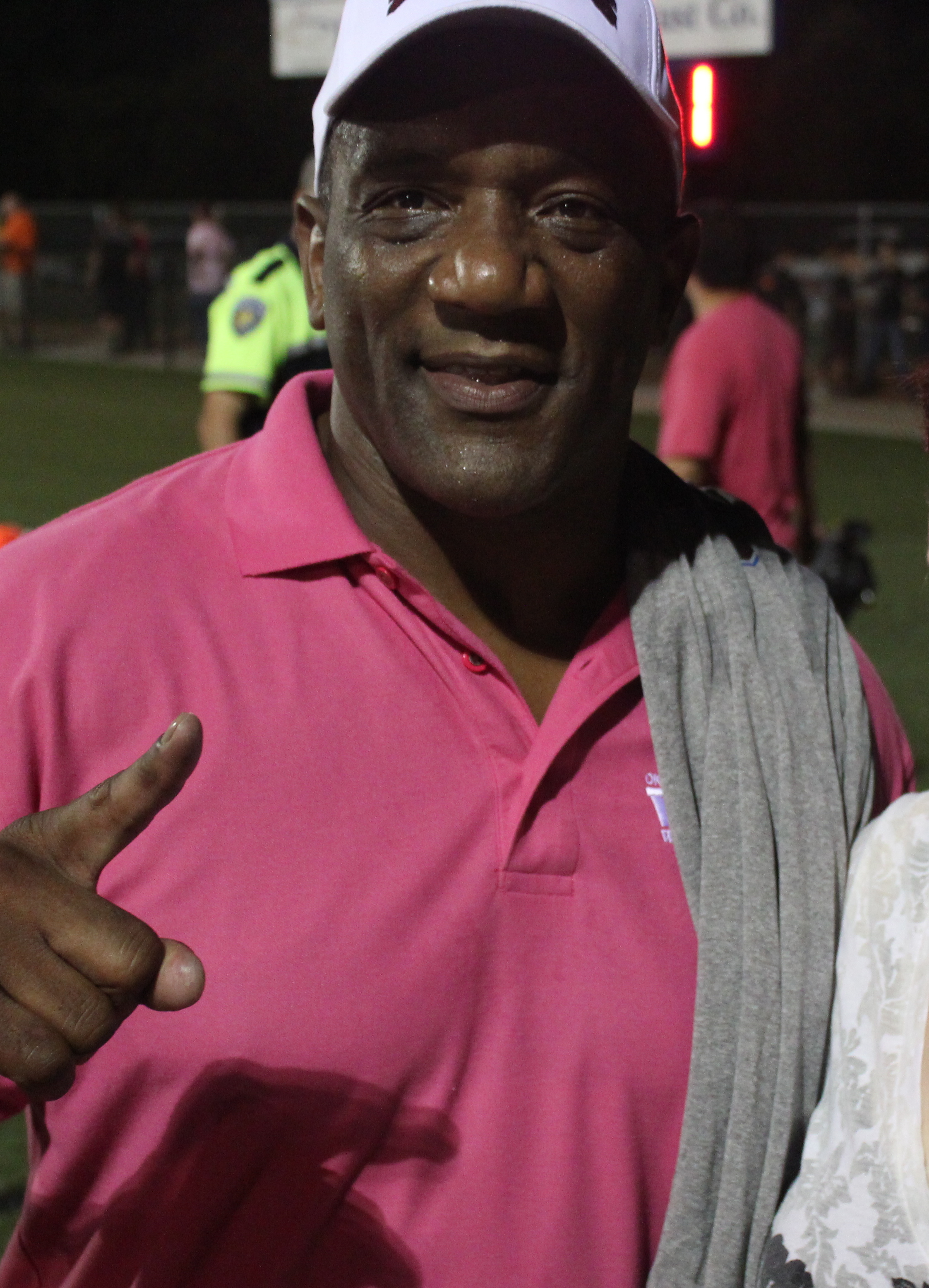 1978 Heisman Winner and former NFL player Billy Sims takes a photograph with fan in Newcastle, Oklahoma (2010).